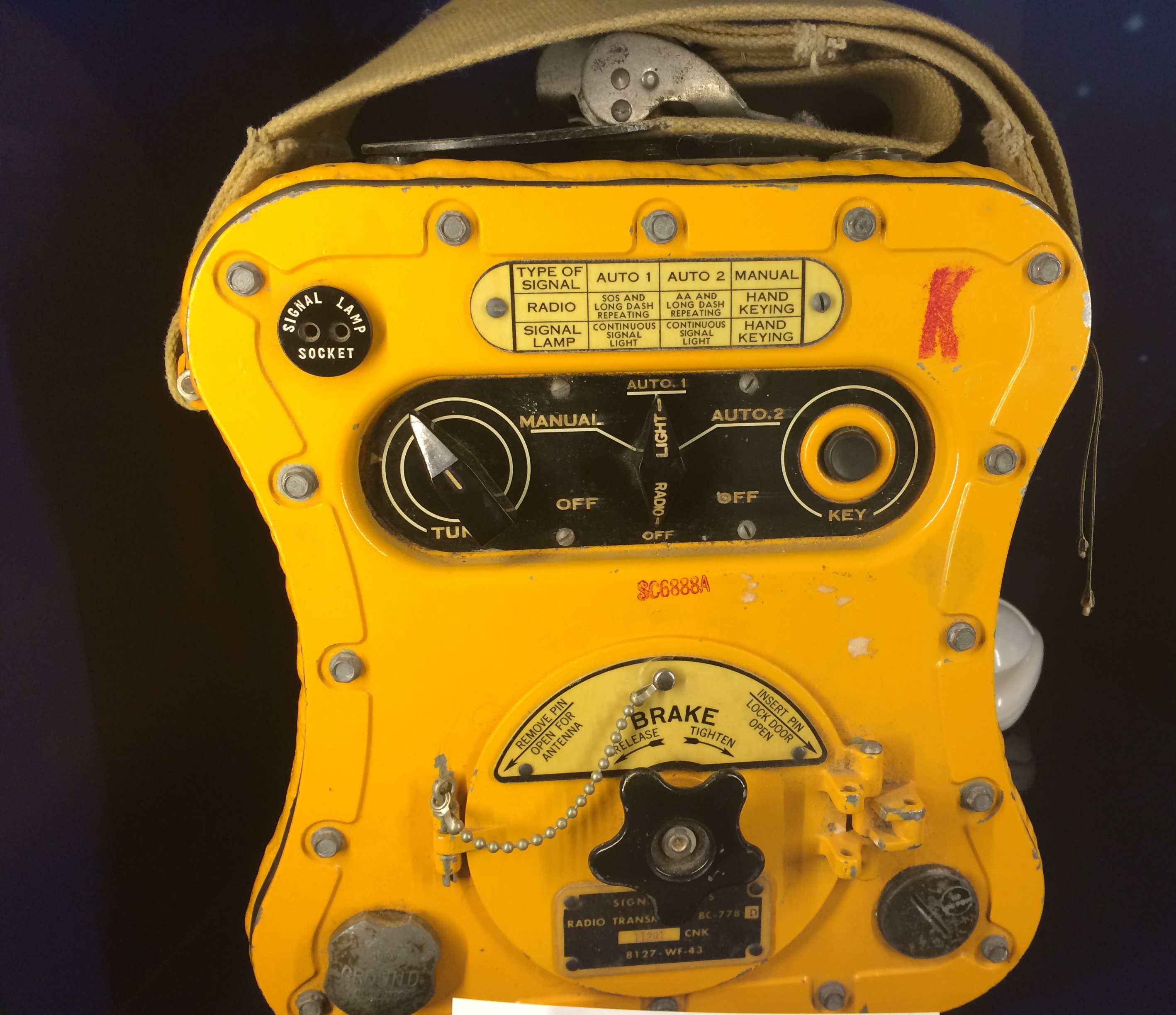 Gibson Girl field radio set from WWII, applied at the Kon Tiki expedition across the Pacific.